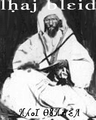 hadj bel3id